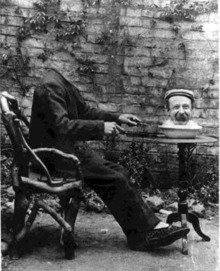 Trick photograph of a man eating a human head